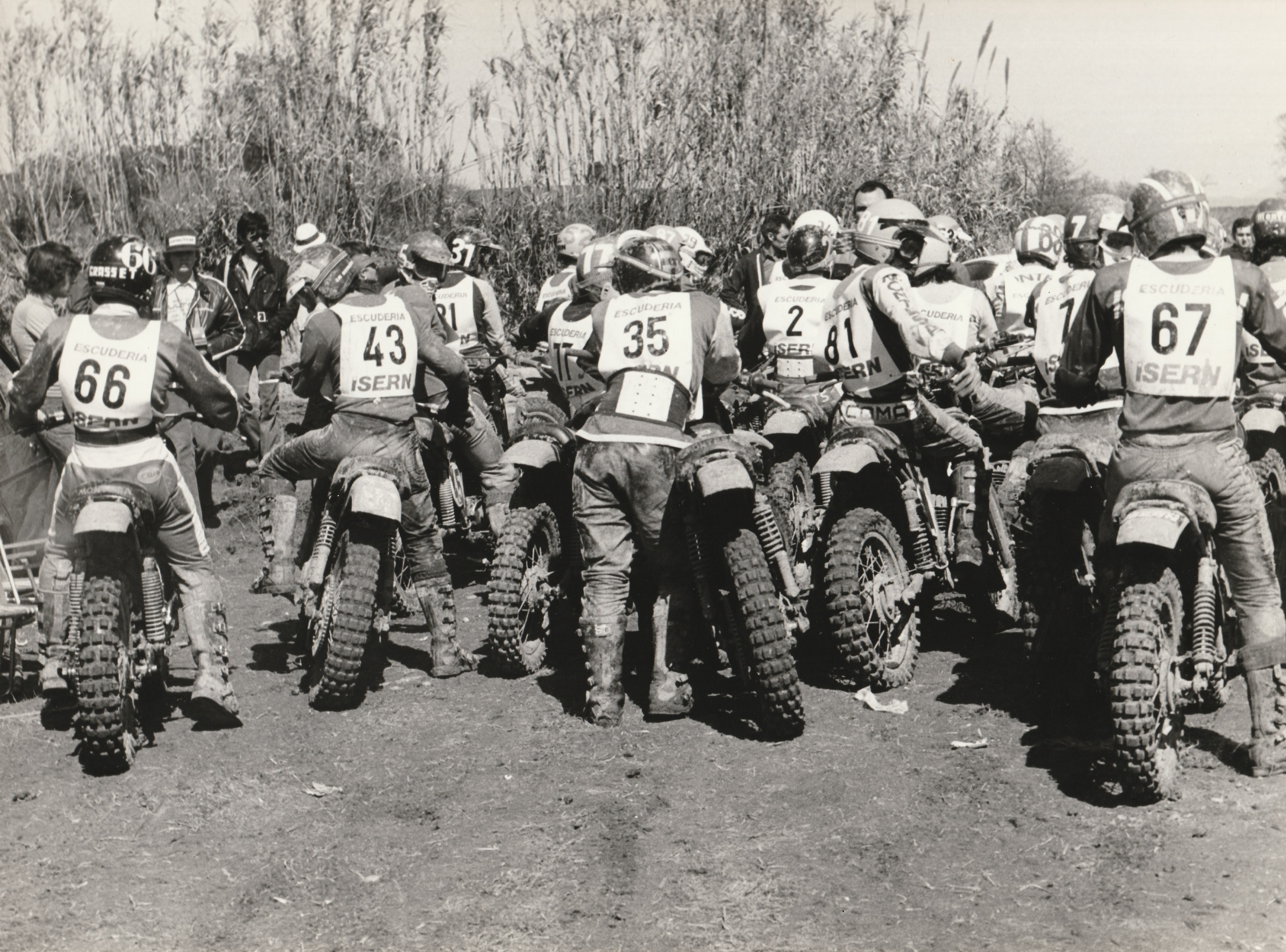 Some riders waiting for the start at Motocross held in Mollet on March 1977, scorable for the RFME Junior 125cc Cup.